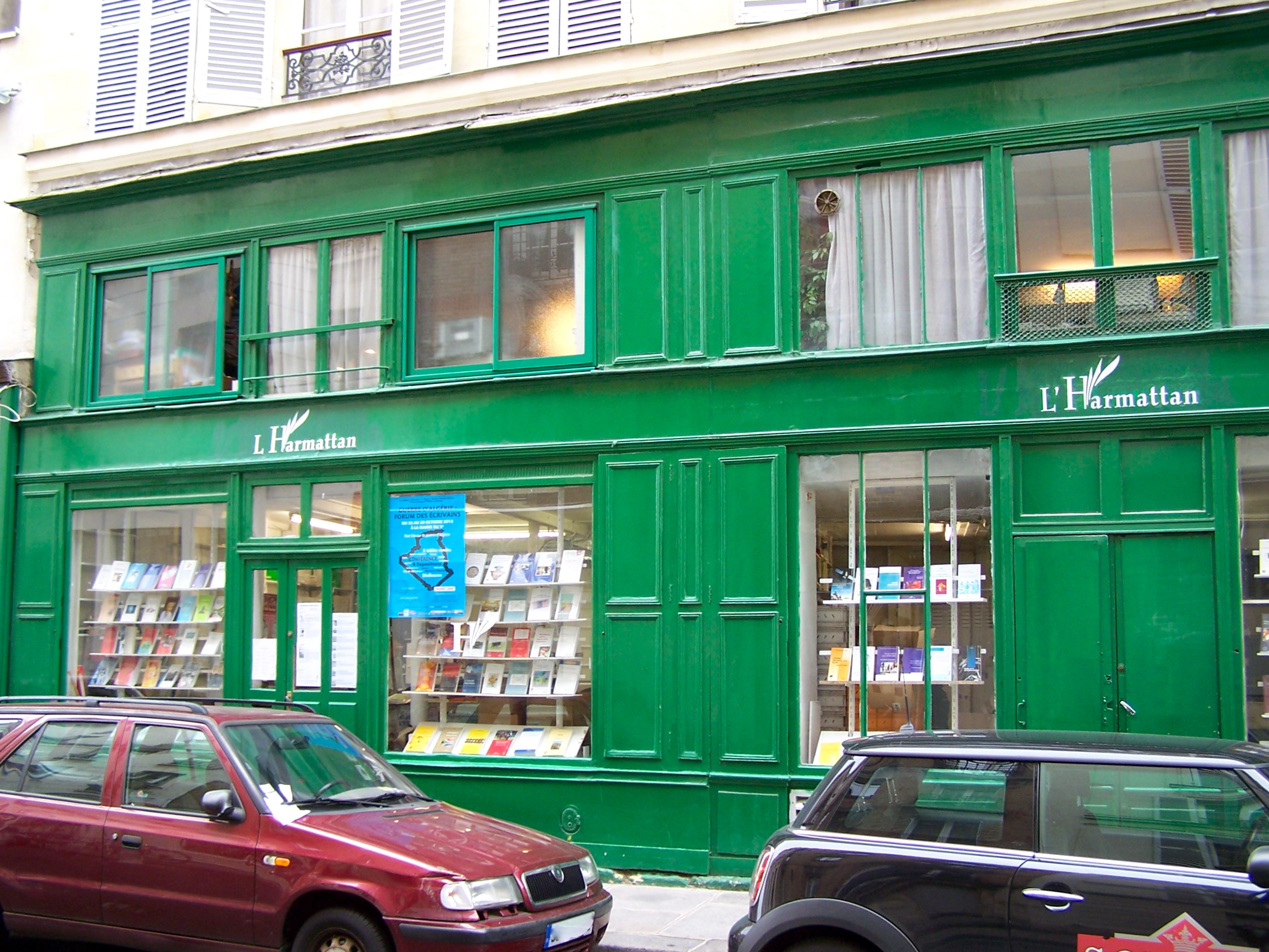 Éditions L'Harmattan, 5-7 rue de l'École-Polytechnique à Paris